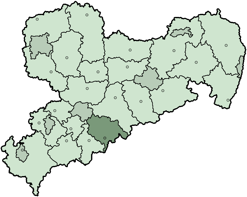 Map of the state Saxony in Germany before 2008, district Mittlerer Erzgebirgskreis highlighted.